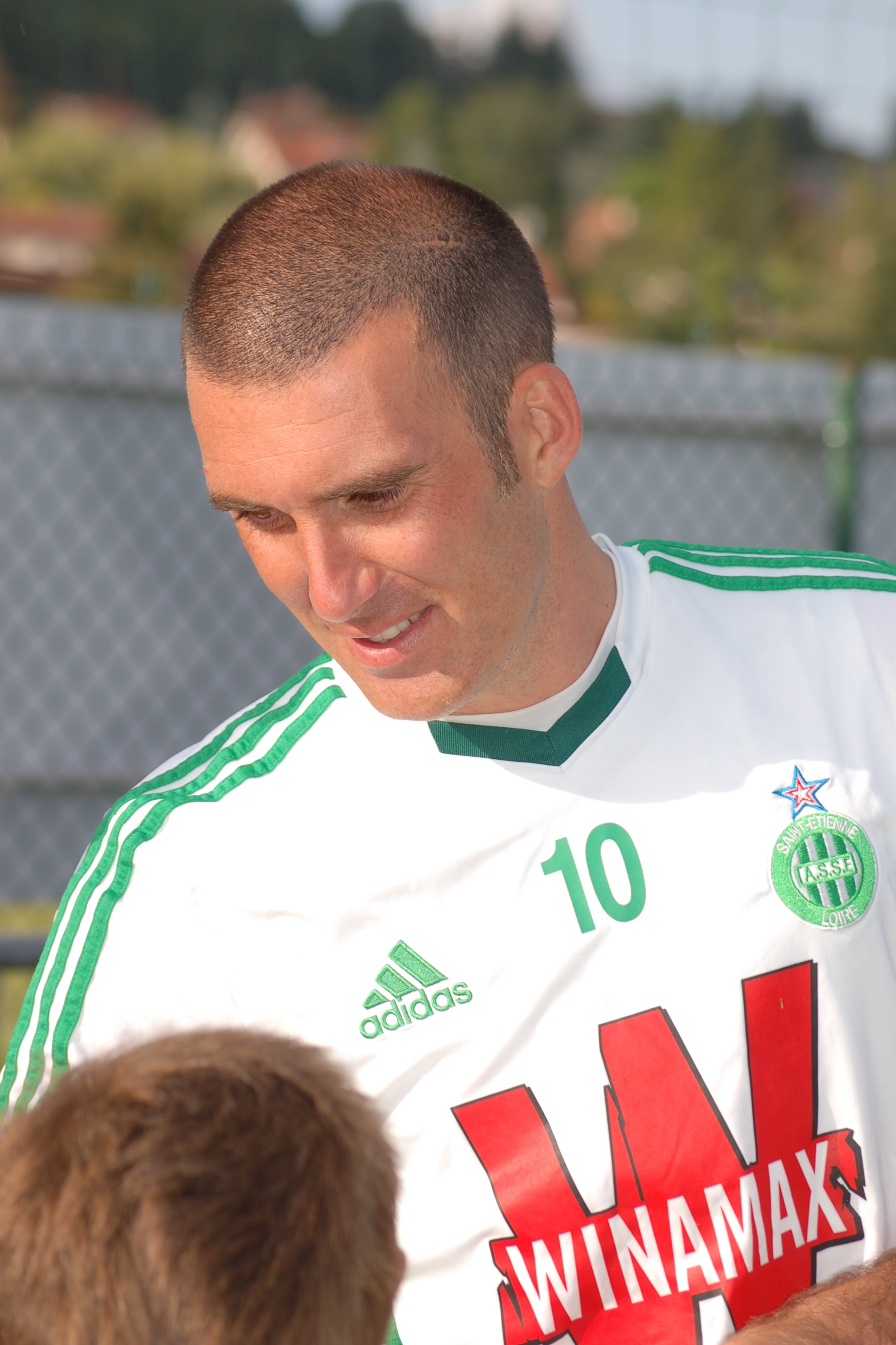 Football player Laurent Battles training with AS Saint-Etienne, on August 3rd, 2011 (L'Etrat, France).